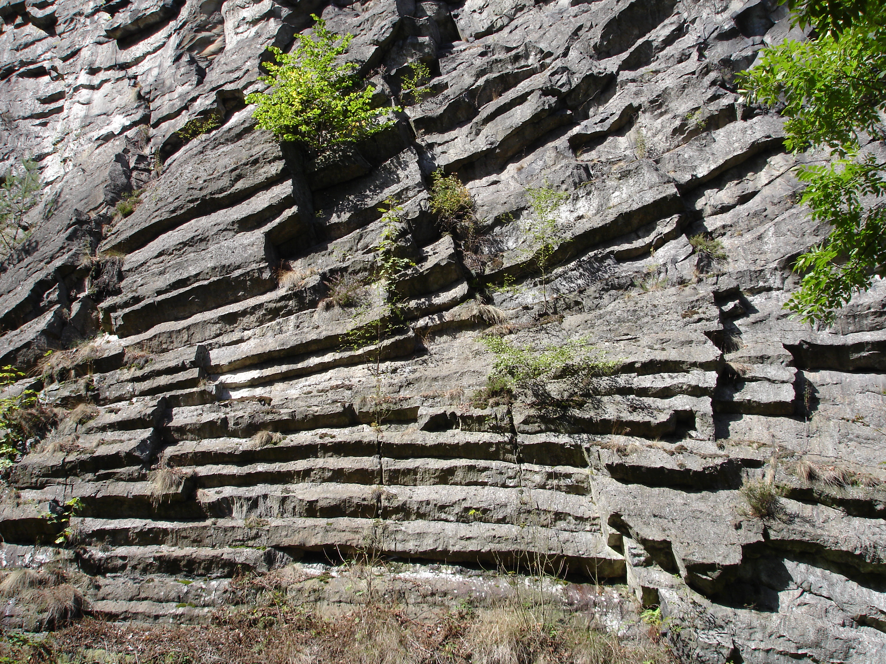 Horizontal columns of phonolite at foot of Fredevald (Pustý zámek) castle rock near Česká Kamenice, Czech Republic. Some of the colums are over 25 m long.